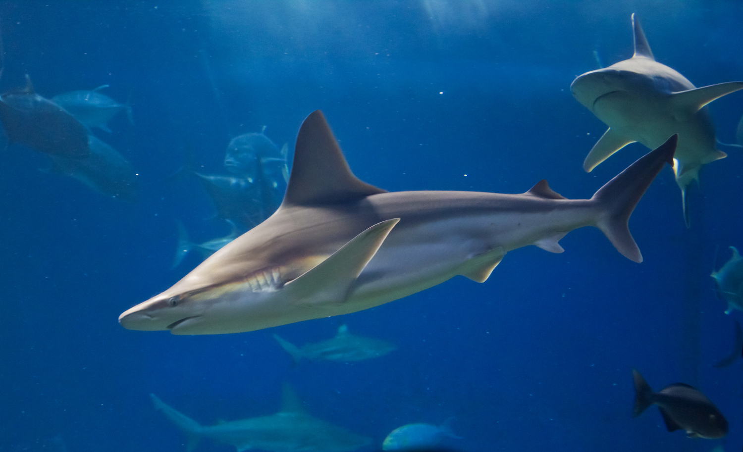 Sandbar shark (Carcharhinus plumbeus) at the Maui Ocean Center, Hawaii